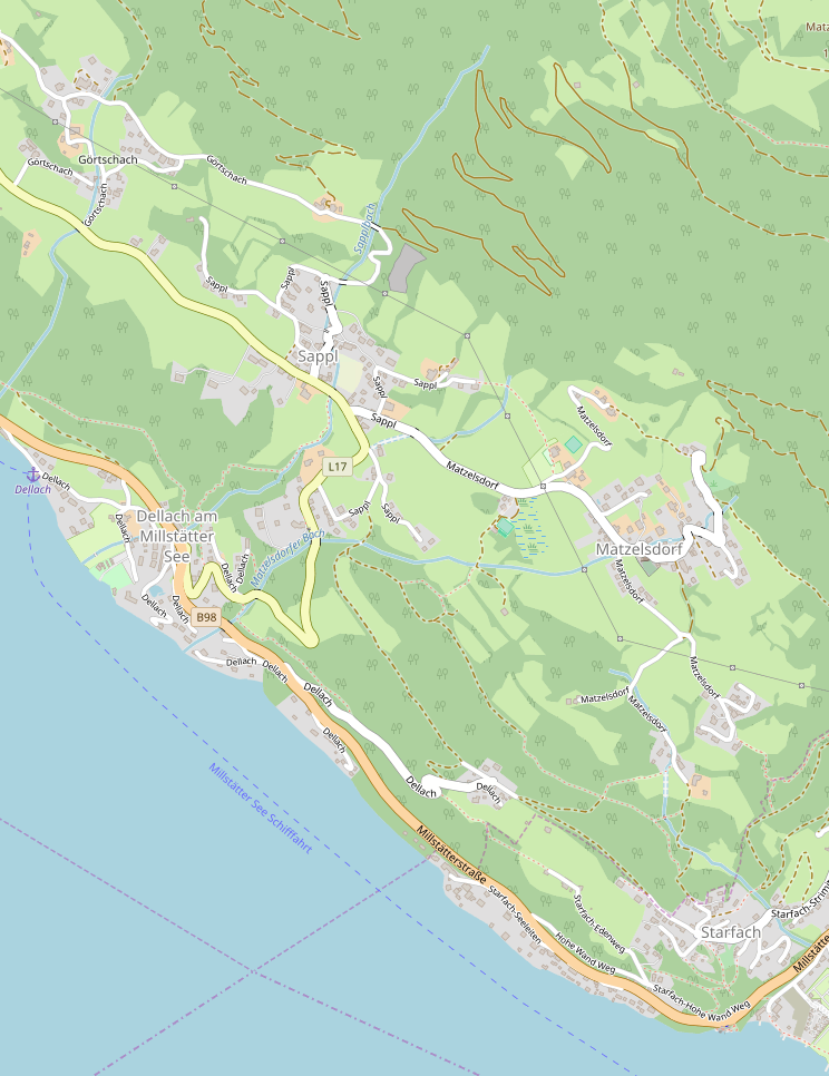 This map may be incomplete, and may contain errors. Don't rely solely on it for navigation.